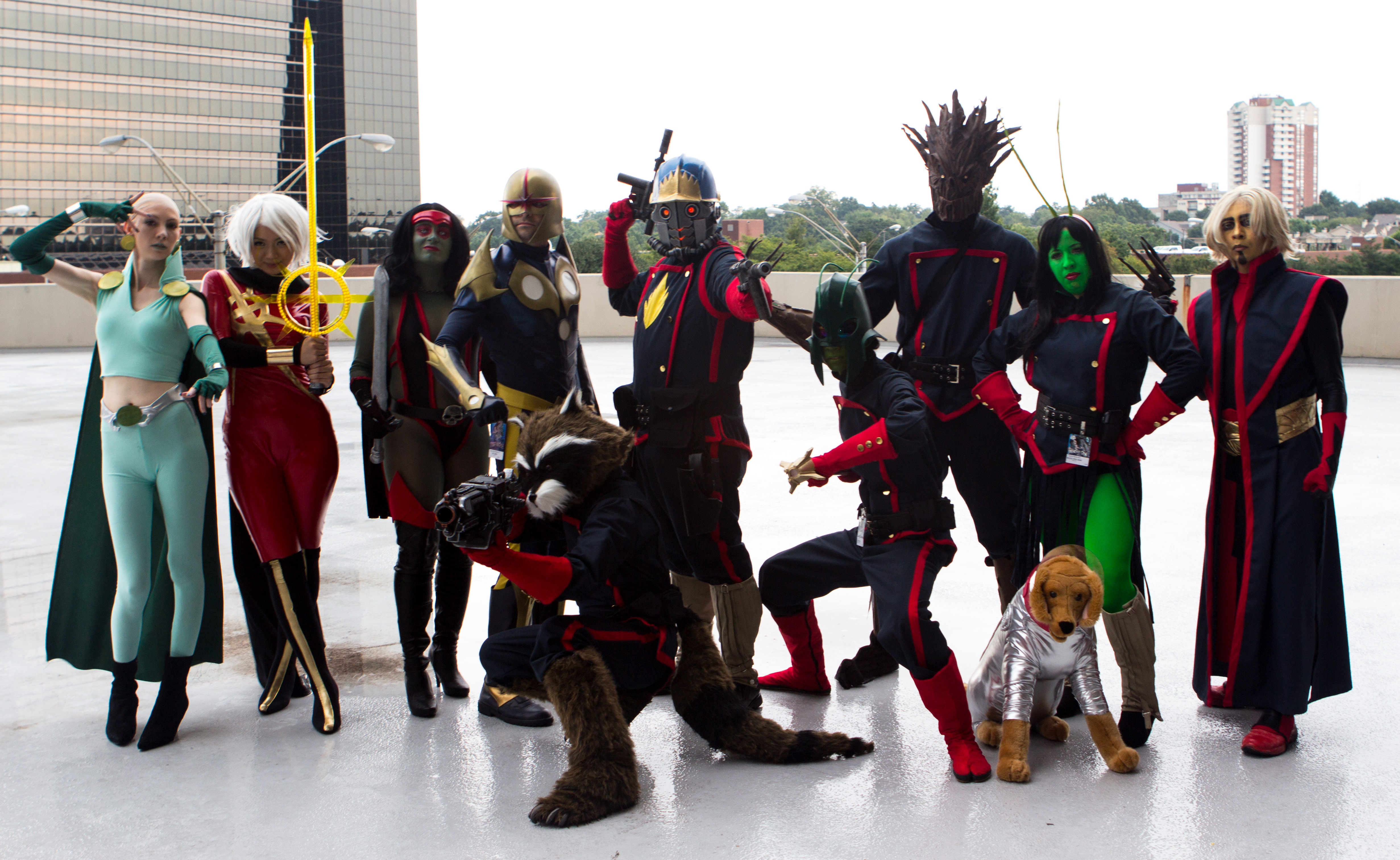 Cosplays of Marvel Comics characters, Guardians of the Galaxy. Dragon Con 2013